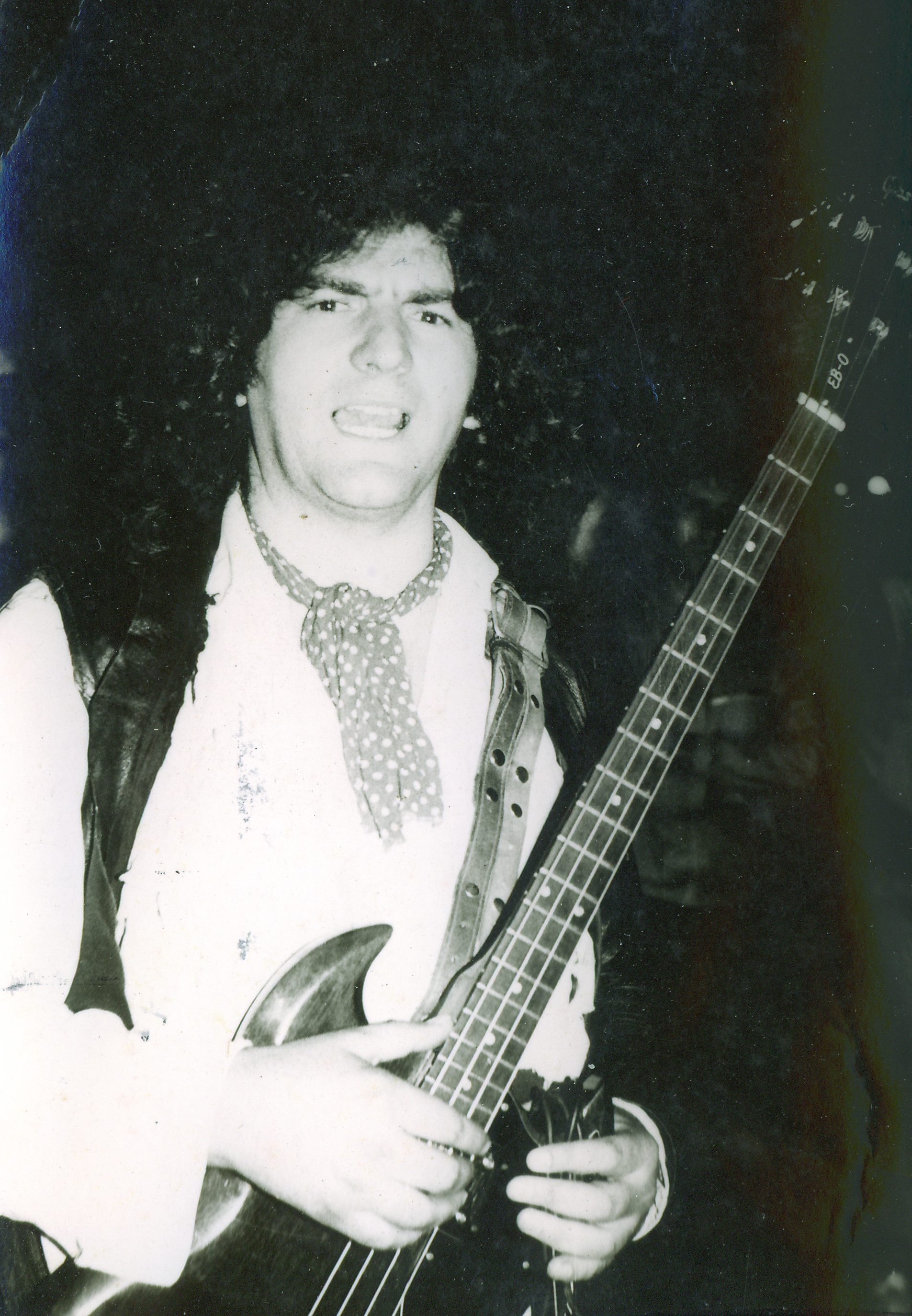 Bruno Langer, founder, composer, songwriter, singer and bass-guitarist in rock band "Atomic shelter" from Pula (Croatia). Photographed during the Hippodrome Concert (Belgrade, 1981)